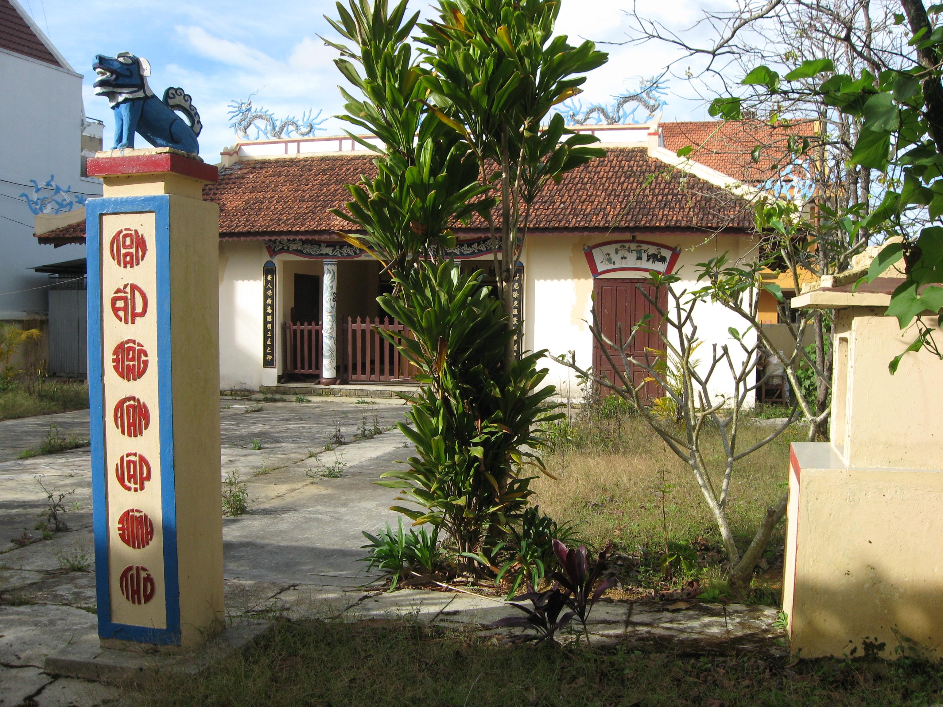 Co Giang communal house